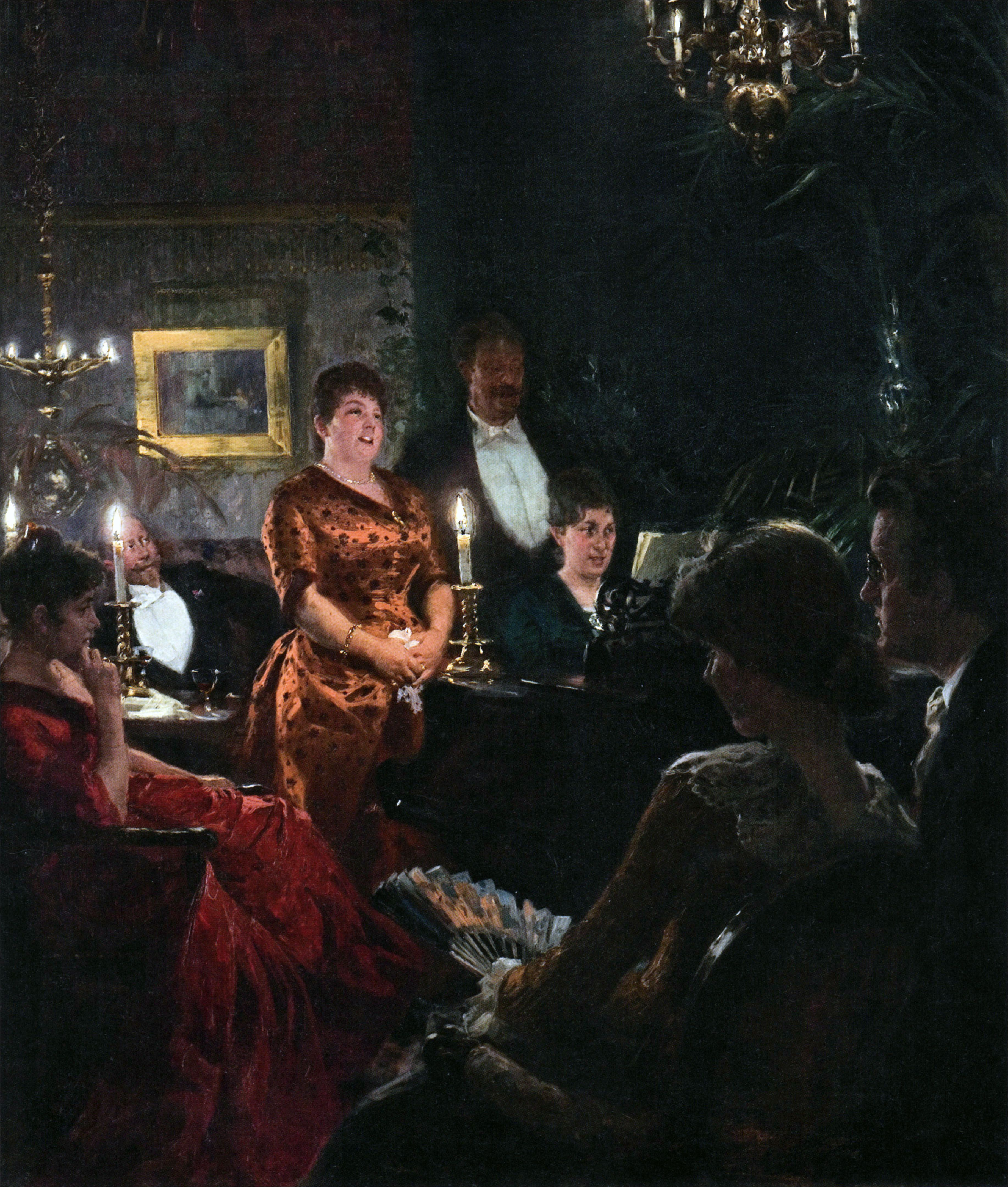 Miss Beatrice Dietrichsen and the painter Vilhelm Rosenstand in a duet, accompanied by Mrs Vilhelmine Bramsen at the piano. Seen at the front - with her back to the viewer - is Miss Marie Triepcke. Krøyer wanted her to sit for him, and this is his first painting of her. (Source: Peter Michael Hornung (2005): Peder Severin Krøyer, page 229.)